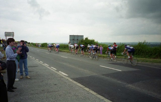 Cyclists taking part in the Portsmouth stage of the Tour de France race in 1994.